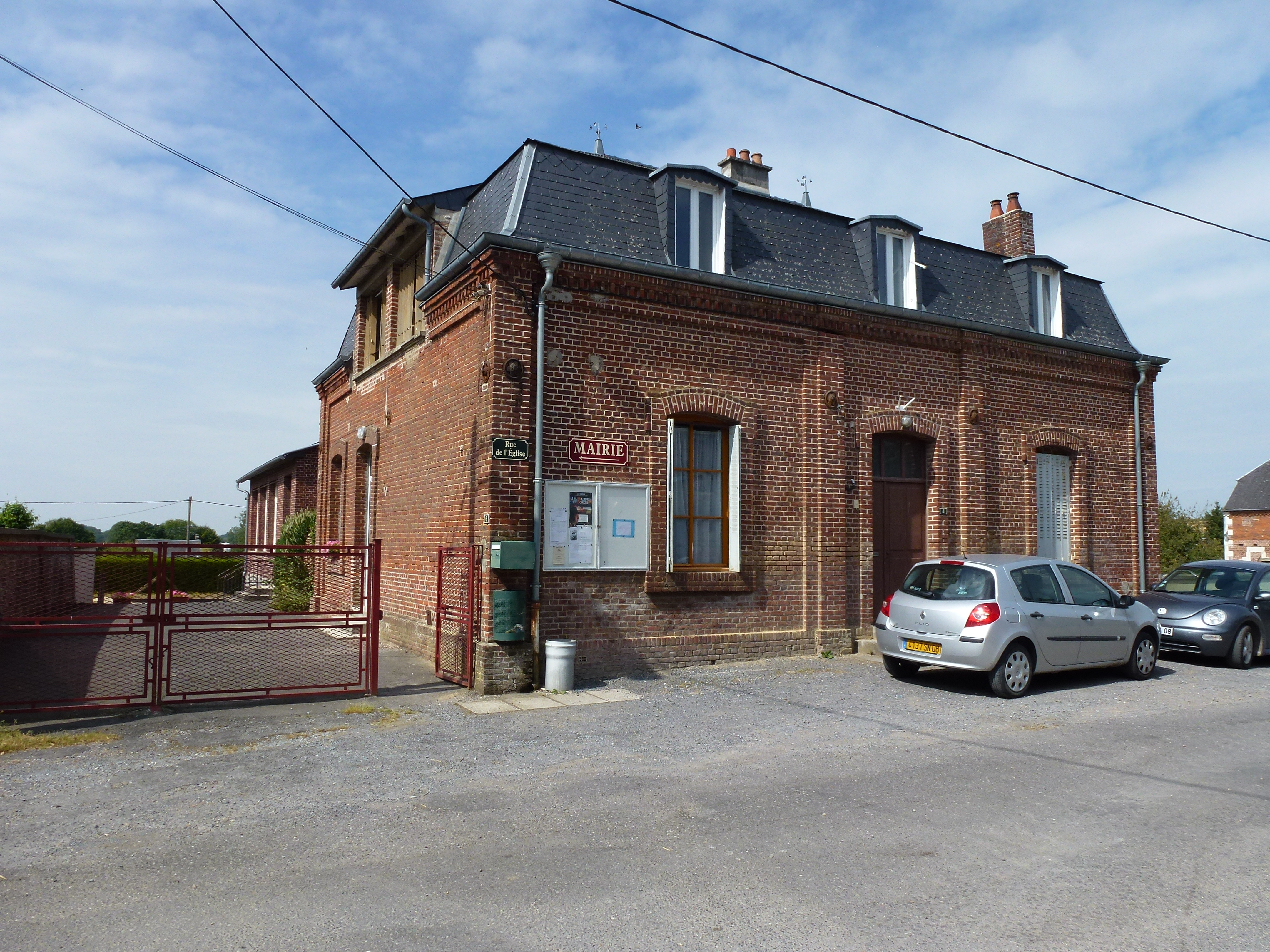 Fraillicourt (Ardennes) mairie